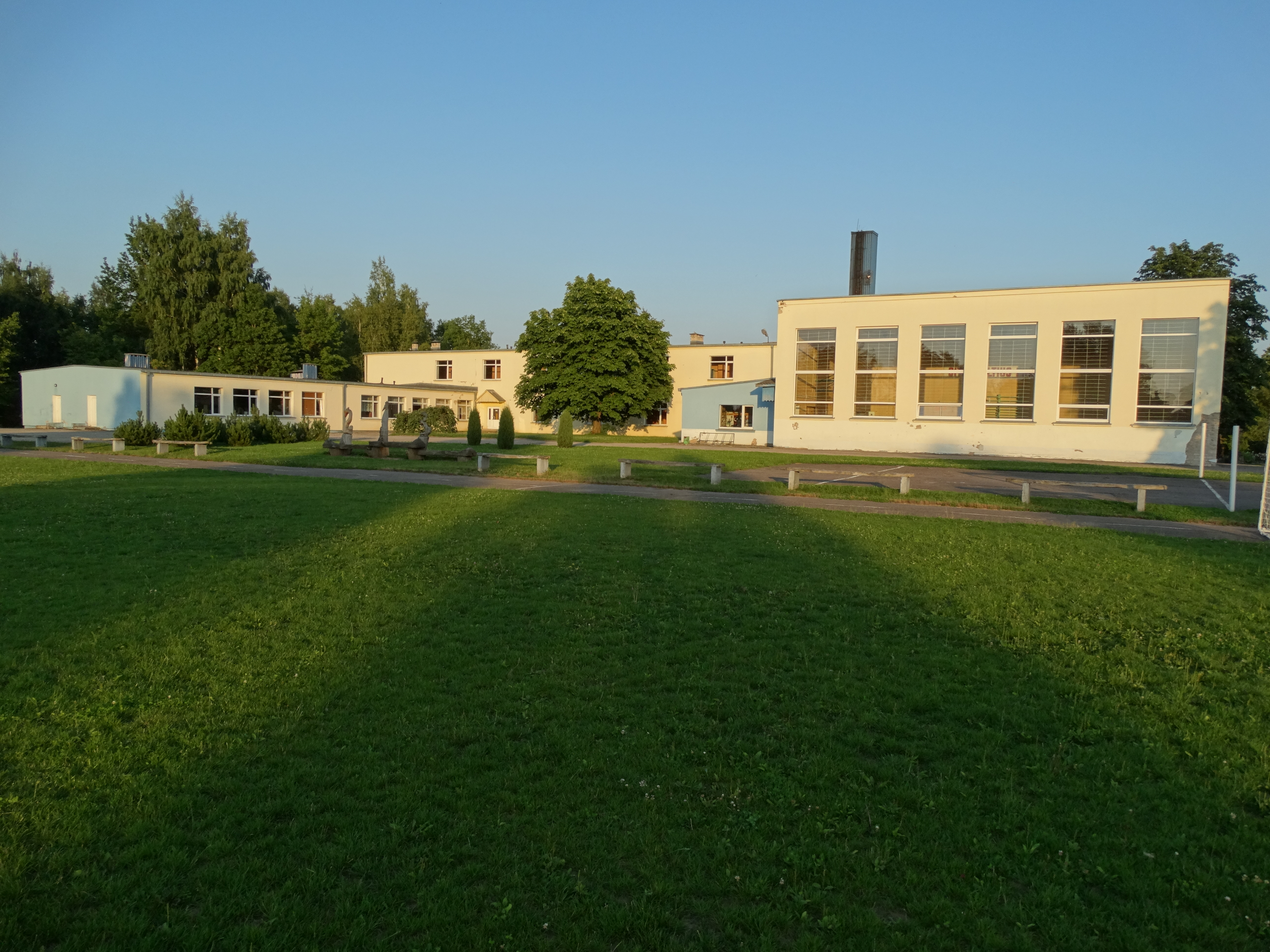 Gymnasium in Skaistgirys, Joniškis district, Lithuania